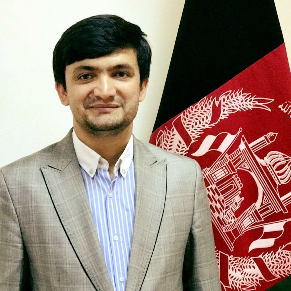 Sayed Ihsanuddin Taheri is the FINA Media Committee Member - Asia and President of Afghanistan National Swimming Federation